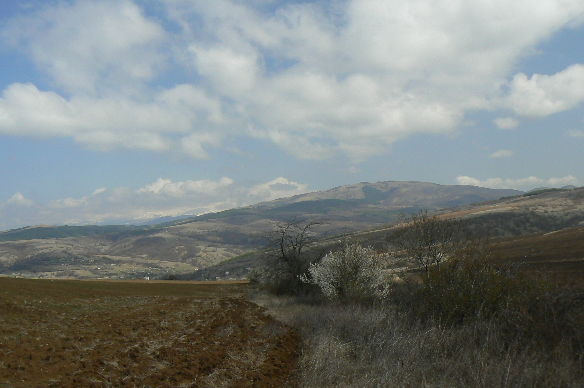 Изглед от юг към Верила, с Витоша на заден план. View from the south to Verila mountain, Bulgaria, with Vitosha mountain in the rear